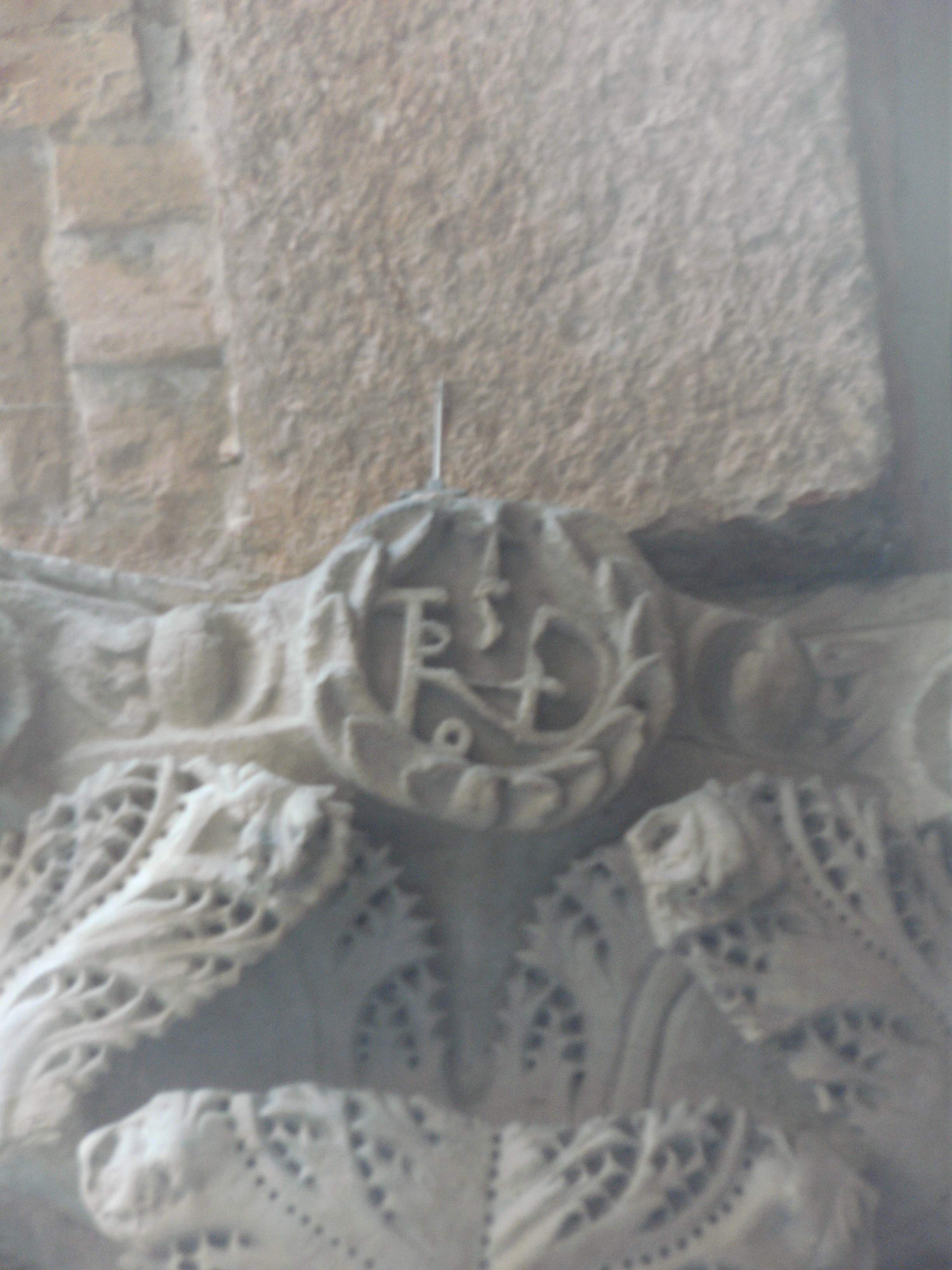 Theodoric the Greats initials on a capitals upper end, on a column belonging to the Venetian palace in the center of Ravenna. The column most likely comes from an Arian church which was built by Theoderic and later destroyed by the Venetians.